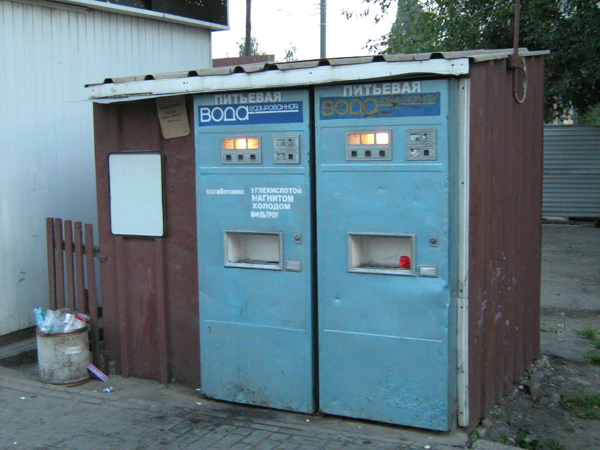 A pair Soviet-style self-service soda fountains, which have remarkably survived into 2007. (Nizhny Novgorod, near Sennaya Square)